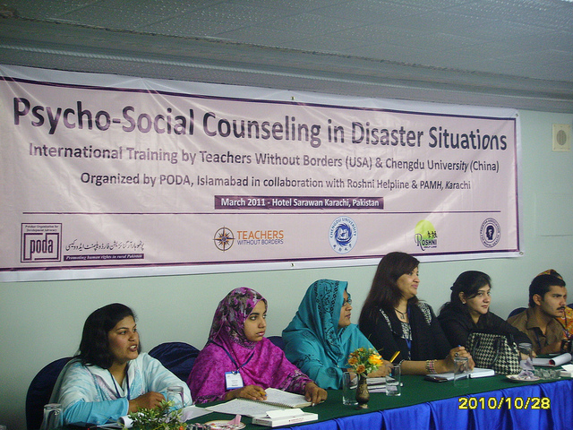 TWB Emergency Education work in Pakistan